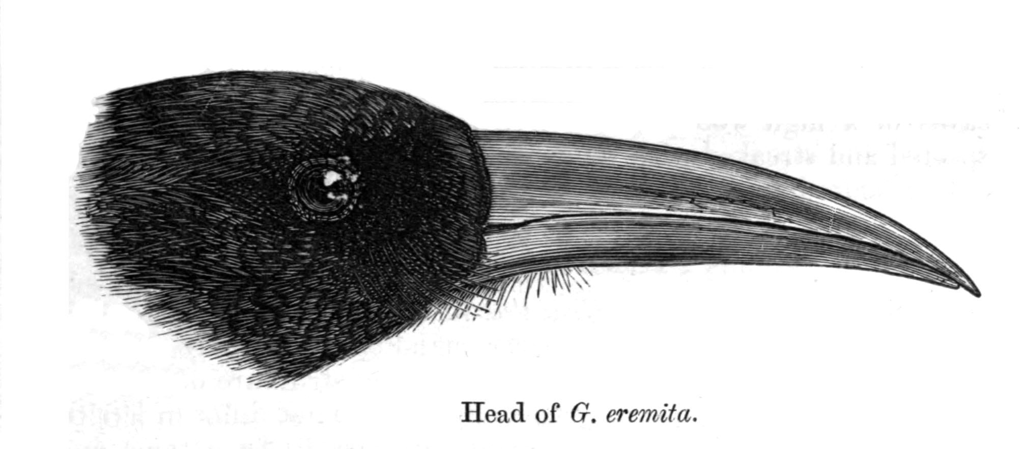 Head of Pyrrhocorax pyrrhocorax eremita (Indian race)